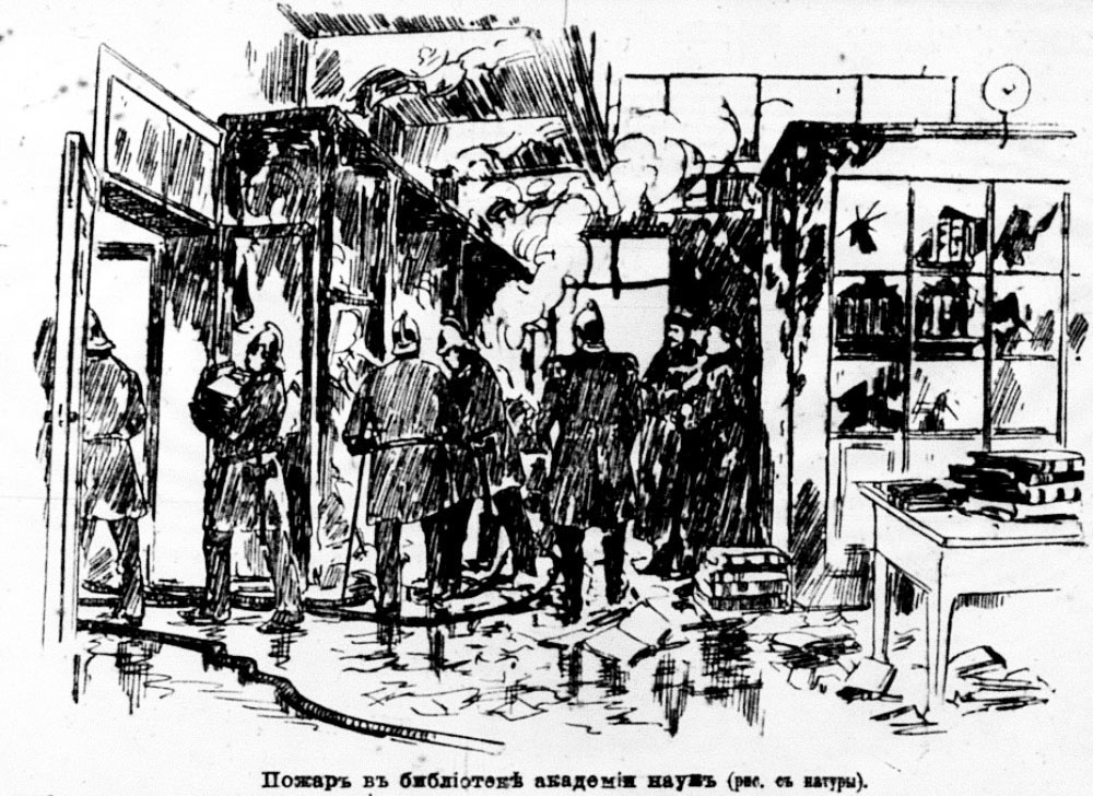 Fire at the Academy of Sciences (Petersburgsky Listok. 1901. January 11. № 10. P. 13)